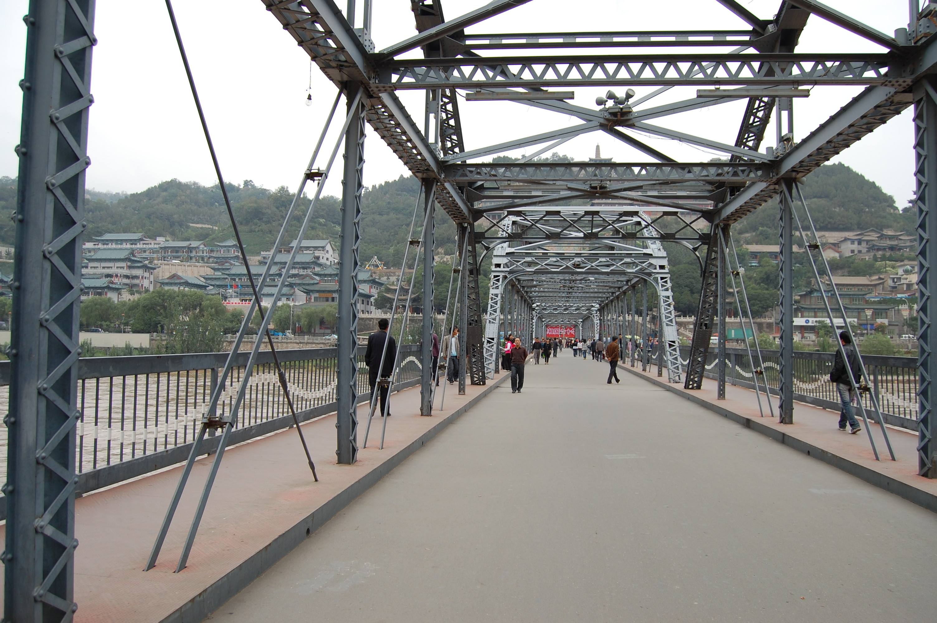 Zhongshan-Bridge in Lanzhou, Gansu Province, China